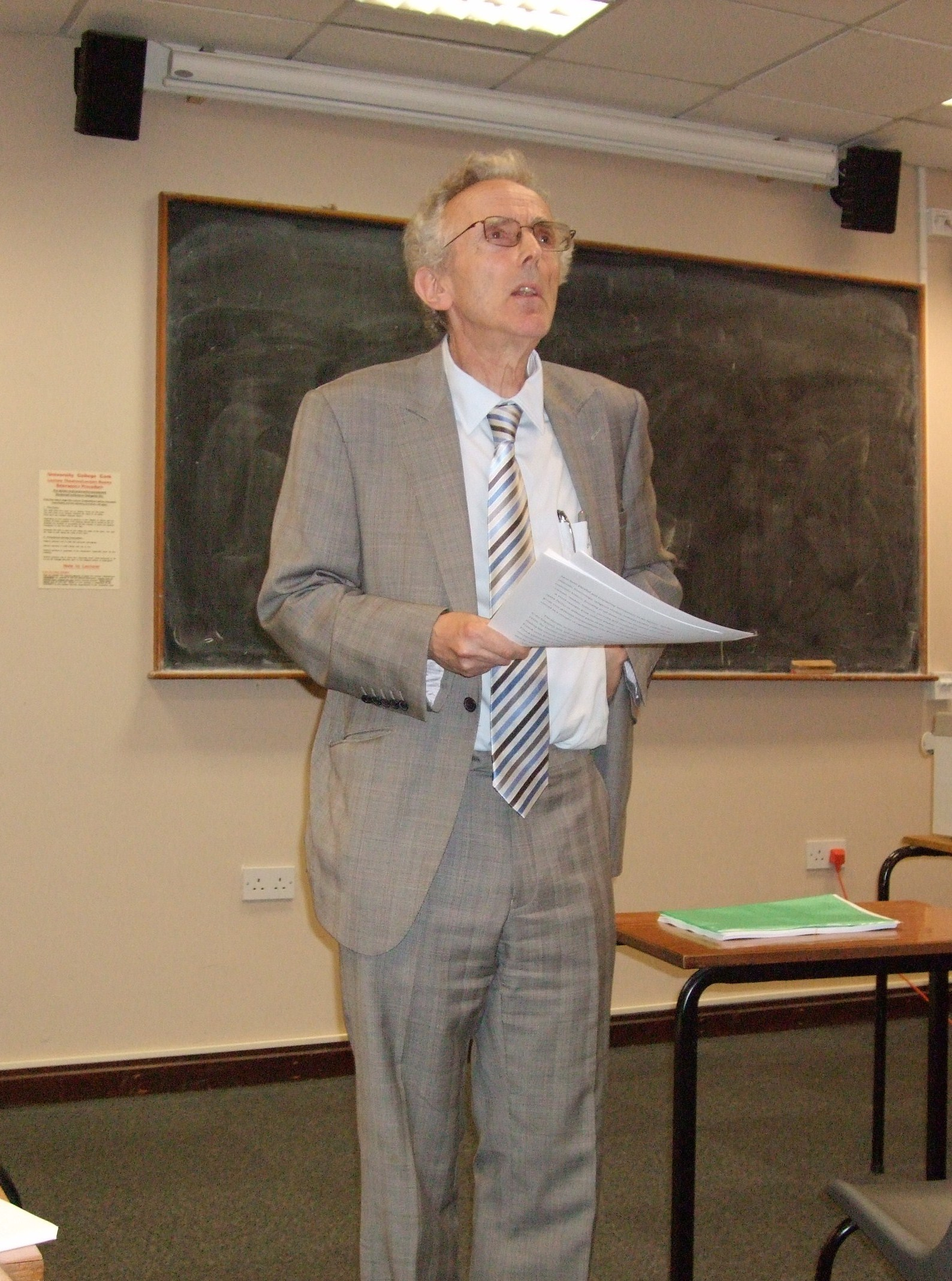 Professor Peter Burke